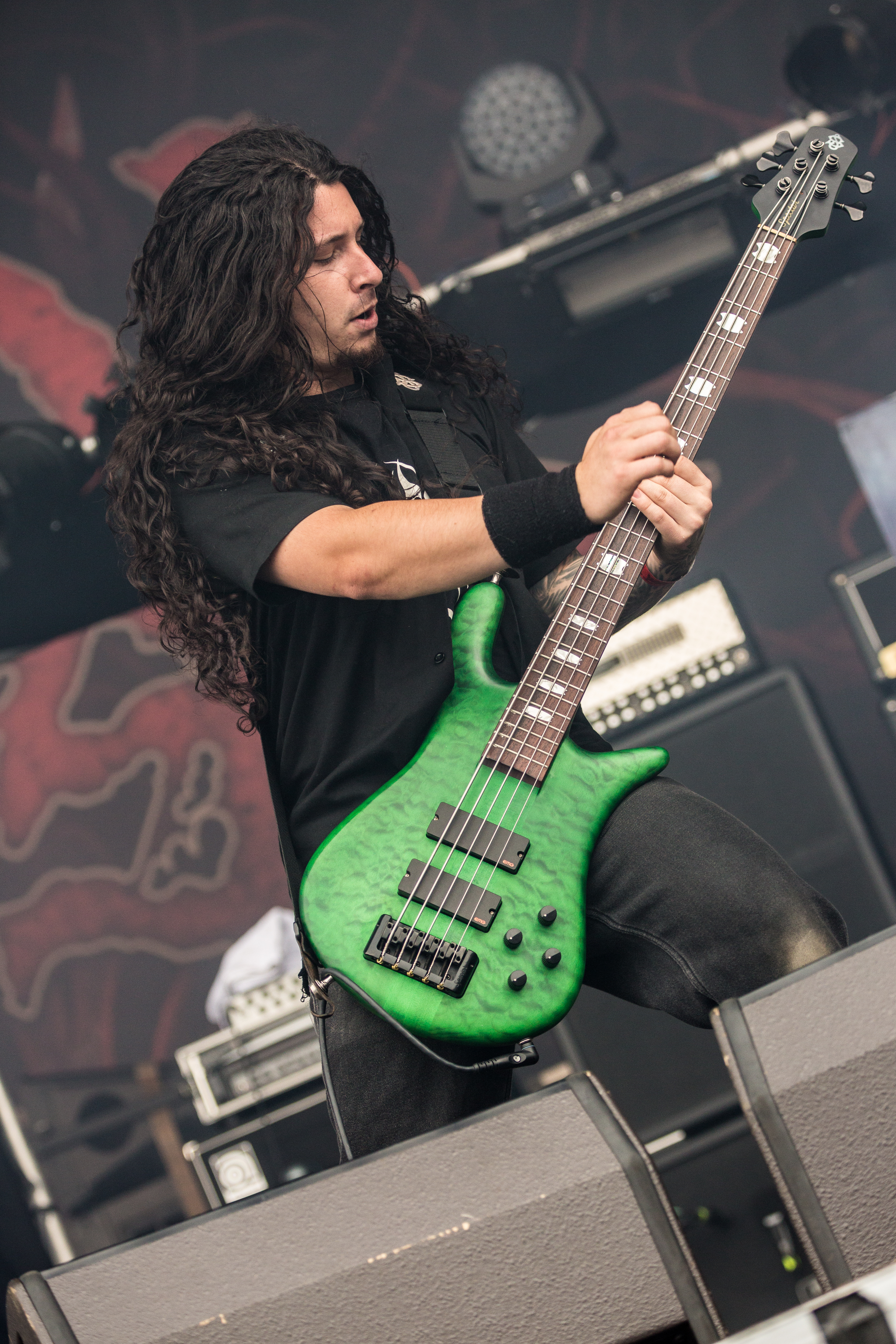 The Canadian technical death metal band Cryptopsy at the Party.San Metal Open Air 2017 in Obermehler-Schlotheim/Germany.